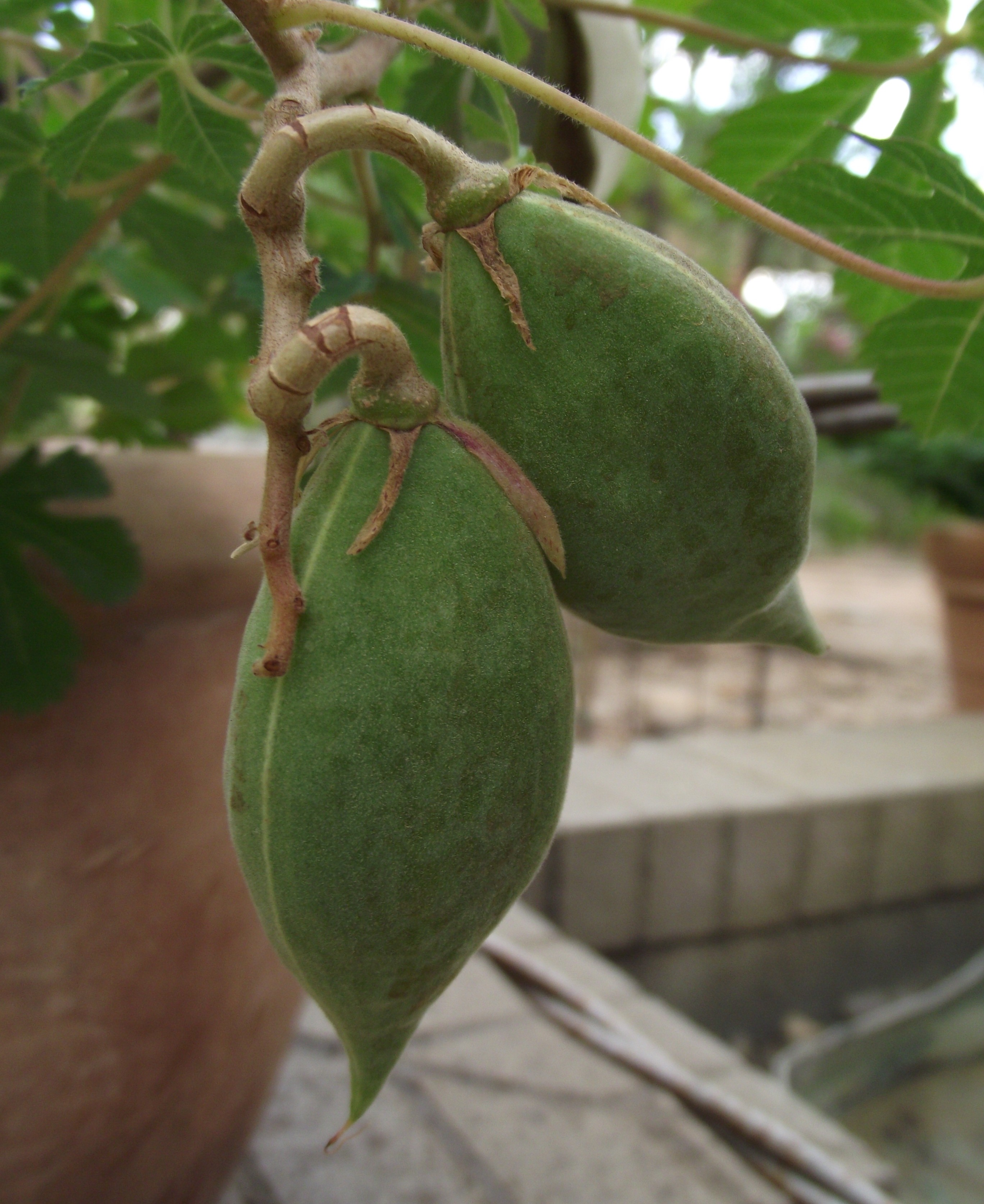 Amoreuxia gonzalezii at Tucson Botanical Gardens, Tucson, Arizona, USA. Identified by sign.